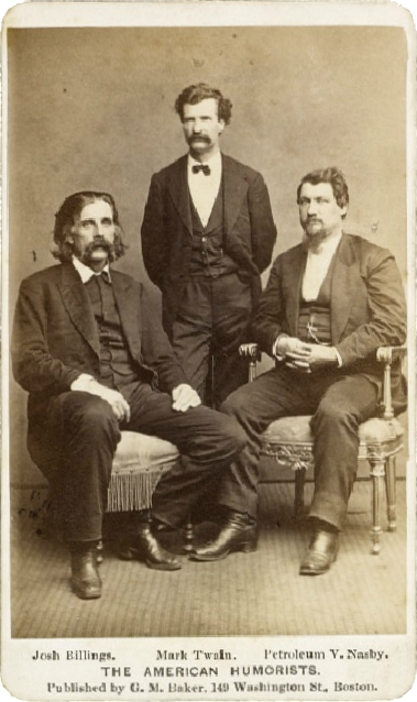 The American Humorists albumen print from left to right: Josh Billings, Mark Twain, and Petroleum V. Nasby